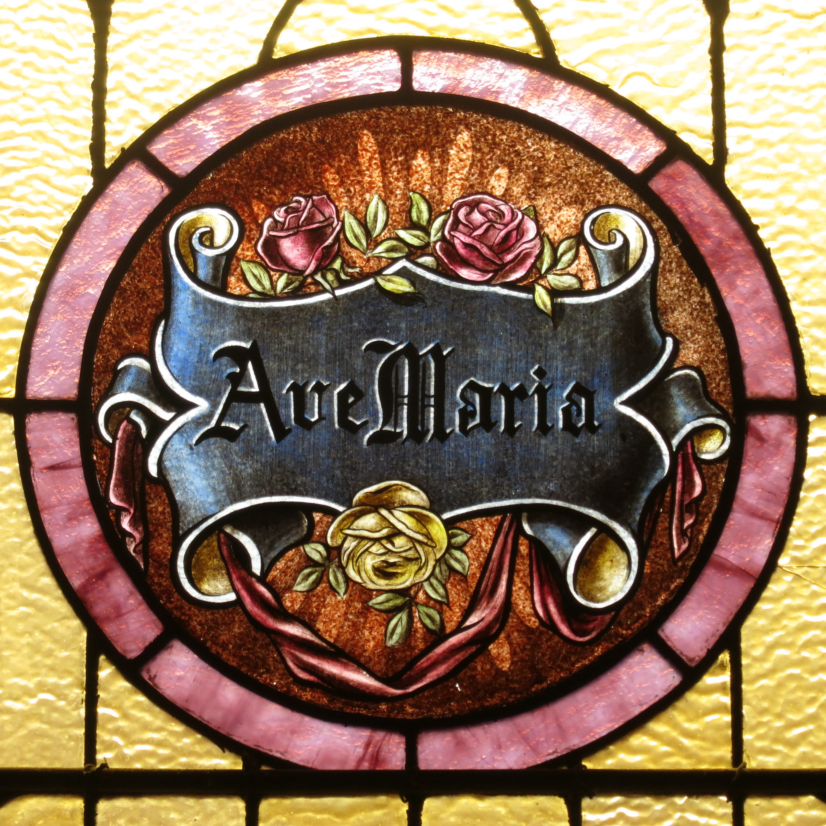 Saint Joseph Catholic Church (Wapakoneta, Ohio) - stained glass, Ave Maria